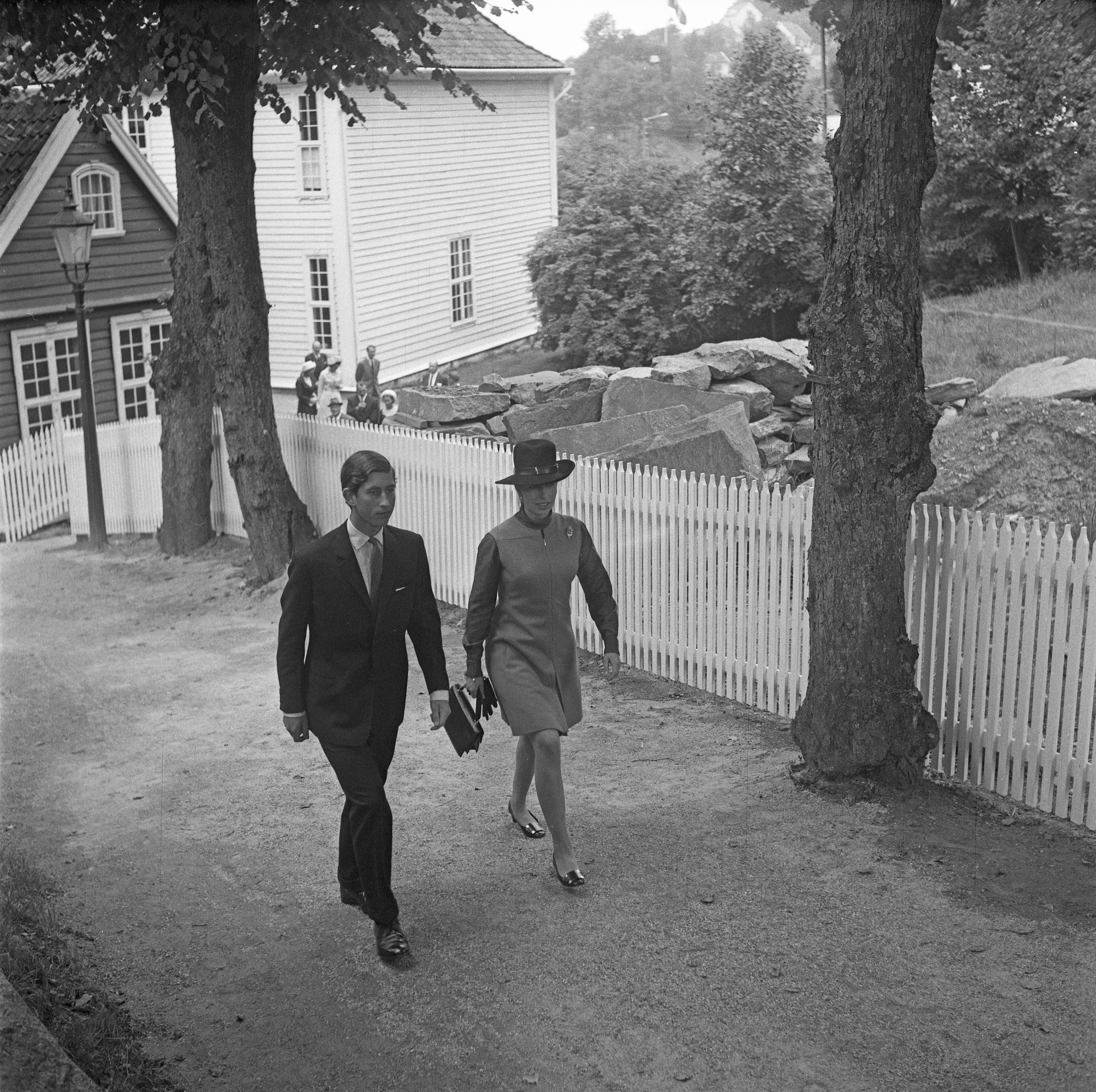 Format: 120 mm sort/hvitt negativ Dato / Date: 7 August 1969 Fotograf / Photographer: Eirik Sundvor (1902 - 1992) Sted / Place: Bergen, Hordaland Wikipedia: Prins Charles (f. 1948) Wikipedia: Prinsesse Anne (f. 1950) Eier / Owner Institution: Trondheim byarkiv, The Municipal Archives of Trondheim Arkivreferanse / Archive reference: Tor.H43.B79.F18337 Merknad: Fra den britiske kongefamiliens besøk i Bergen 1969.